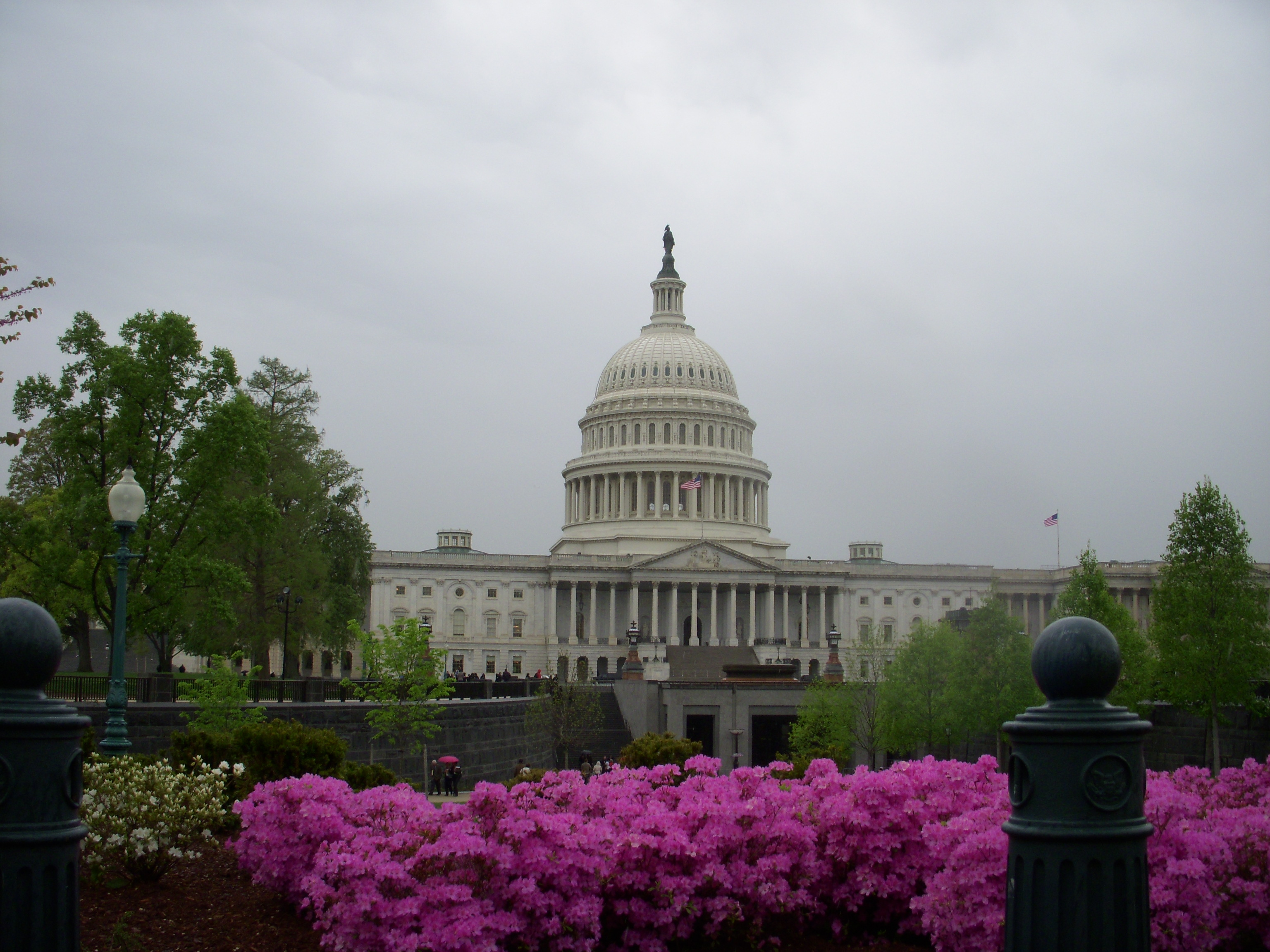 United States Capitol with flowers in foreground